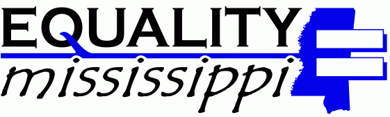 This is the second logo of Equality Mississippi, a now defunct gay rights organization in the state of Mississippi. The organization was founded by me in March 15, 2000 and shutdown in 2009. I designed this logo and as the founder and sole executive director of the organization, release it per the license below.